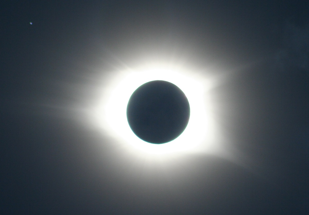 Solar eclipse and star-system Regulus viewed from Cullowhee, NC on August 21, 2017, from the campus of WCU (Western Carolina University). Regulus is visible in the upper left.